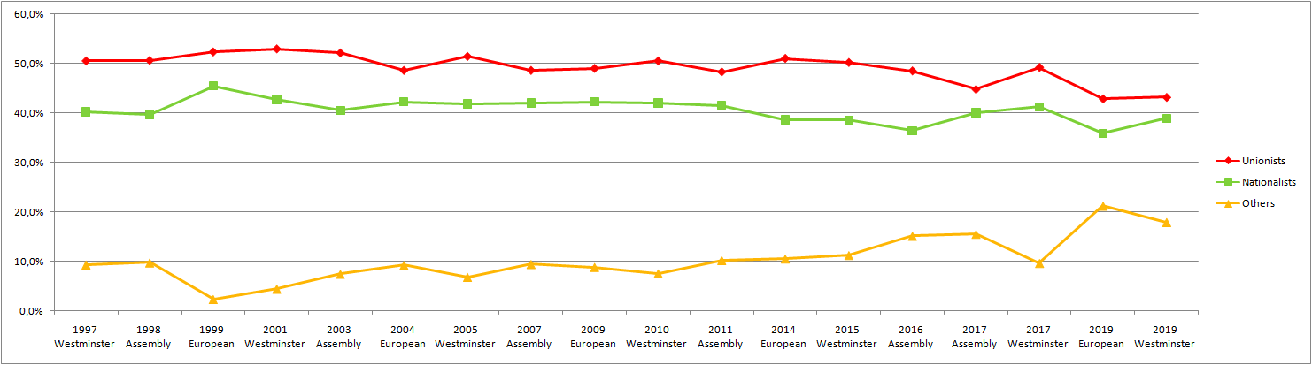 Shows the percentage of votes, or first preference votes, cast for unionist, nationalist and other candidates in elections in Norhern Ireland